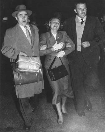 Evdokia Petrova at Mascot Airport, Sydney, being 'escorted' across the tarmac to a waiting plane by two armed Russian diplomatic couriers.